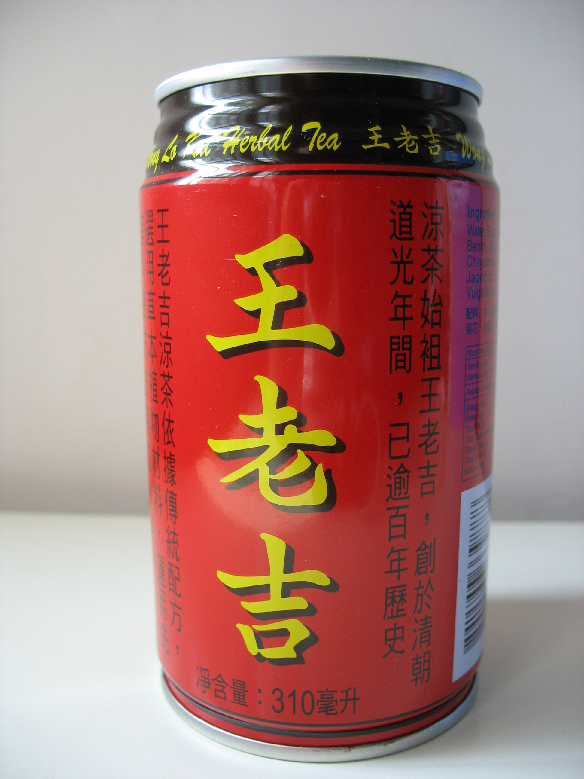 Wong Lo Kat Herbal Tea 310mL